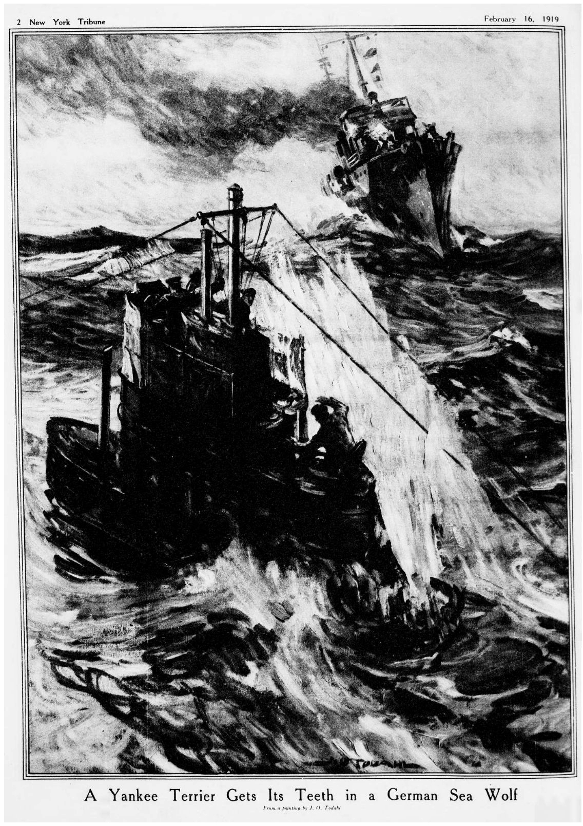 A painting called A Yankee Terrier Gets Its Teeth in a German Sea Wolf by John Olaf Todahl.